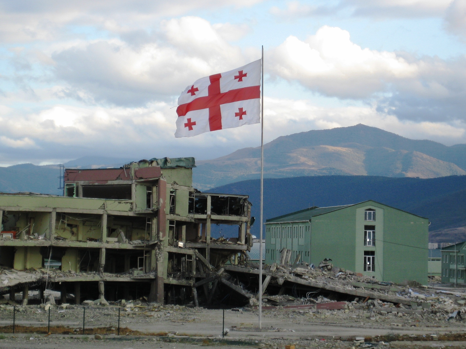 Russian agression in August resulted in the destruction of Gori military bases, only few building survived